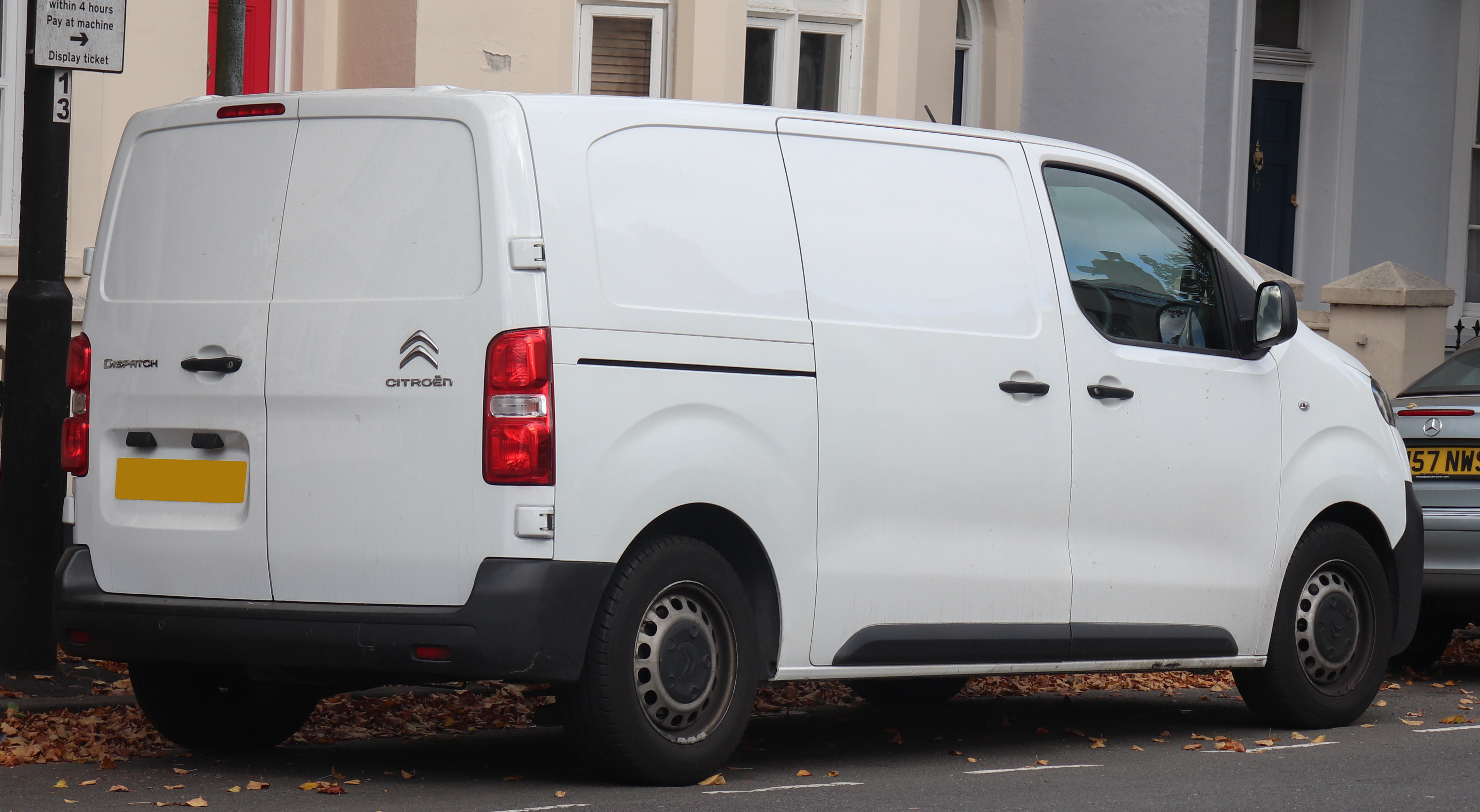 2016 Citroen Dispatch 1000 BlueHDi X S 1.6 Rear Taken in Leamington Spa